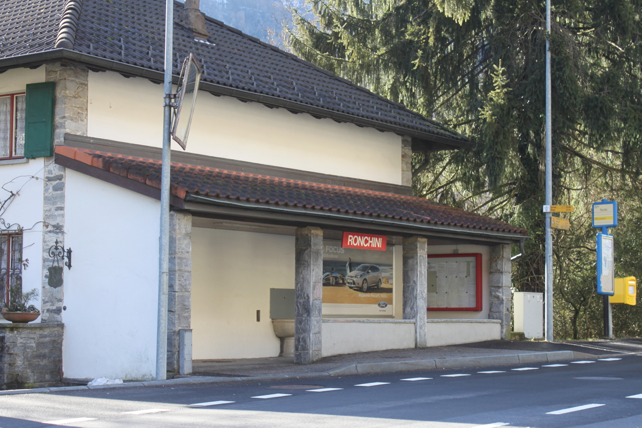 Ronchini train station, in use 1913-1965; now bus shelter (line 62.315 Locarno-Bignasco-Cavergno).